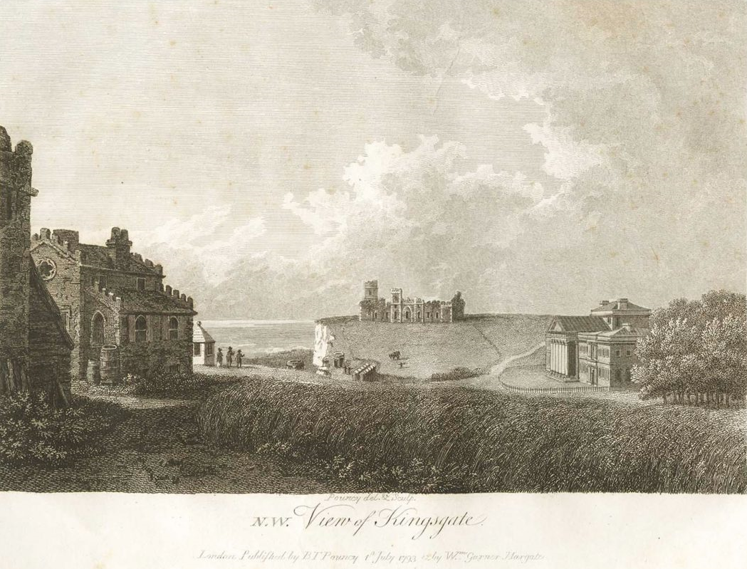 "NW View of Kingsgate". Holland House (right) and surrounding follies, Kingsgate, Kent, built by Henry Fox, 1st Baron Holland (1705-1774). 1793 engraving by Benjamin Thomas Pouncy. Church-like folly at left Captain Digby public house and in far distance Kingsgate Castle. The top of The King's Gate is visible at left leading down to the beach